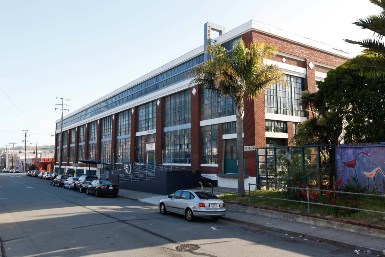 Exterior of Z Space, a Theatre in San Francisco